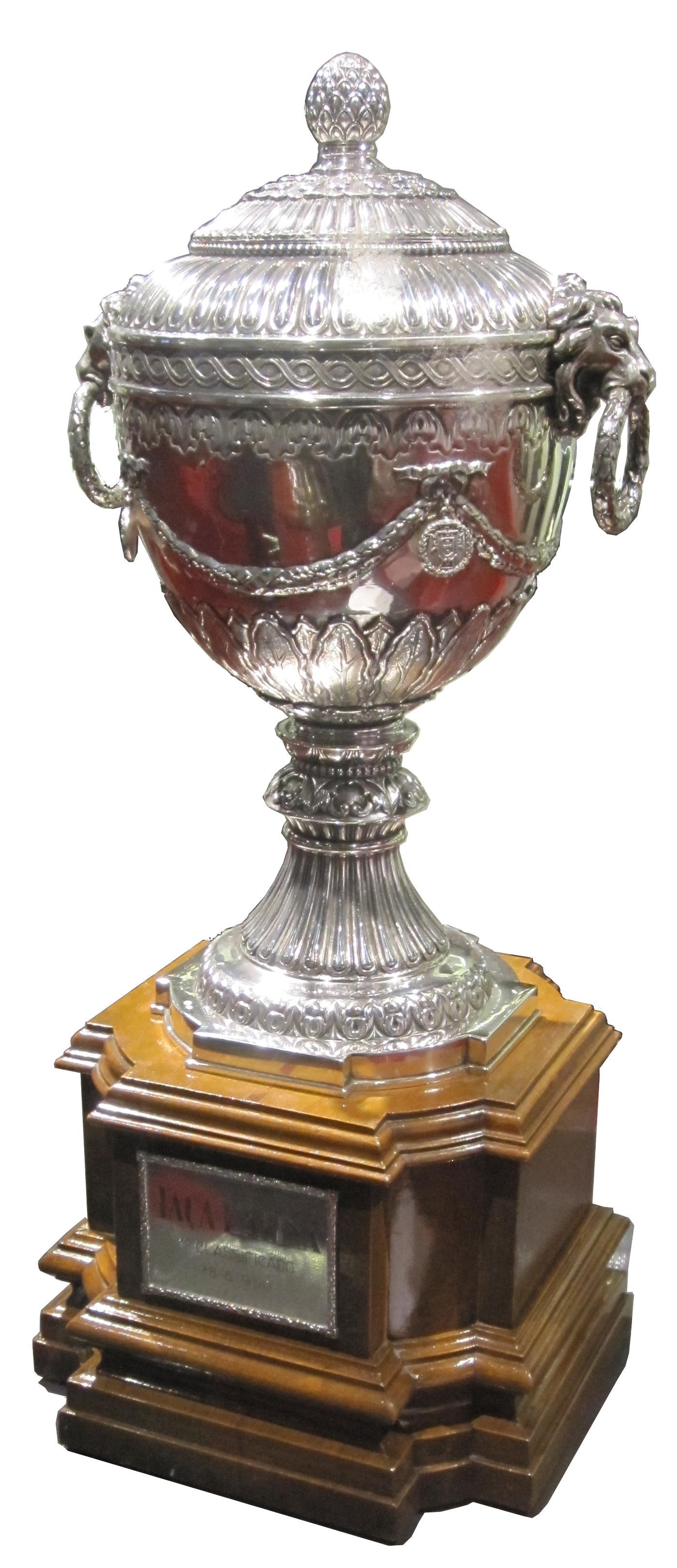 Transparent background version of Copa Latina, a trophy awarded to winners of that defunct competition. The placque says "Taca Latina - 1° classificado - 18/6/1950".